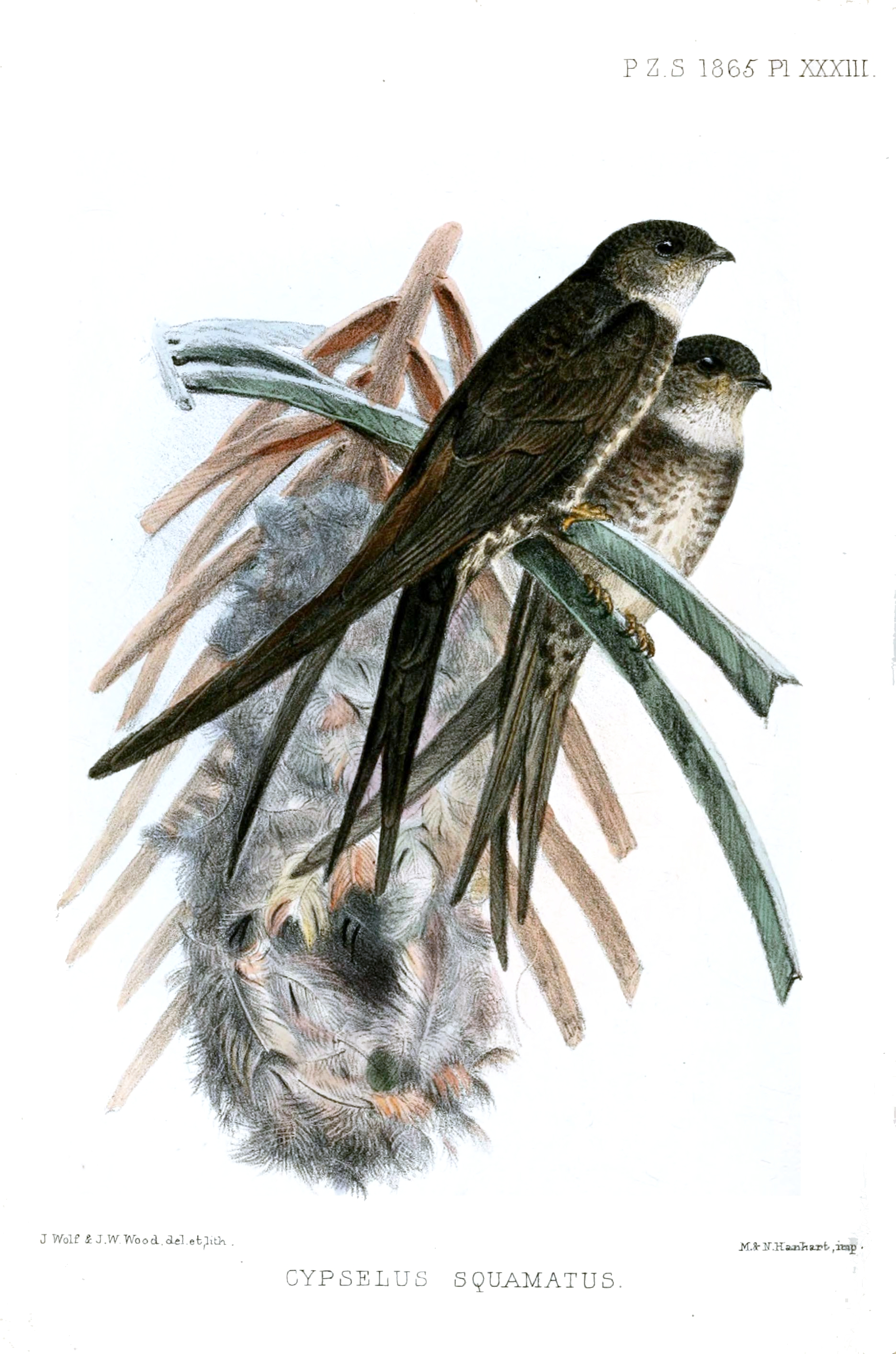 Fork-tailed Palm-swift, adults at nest